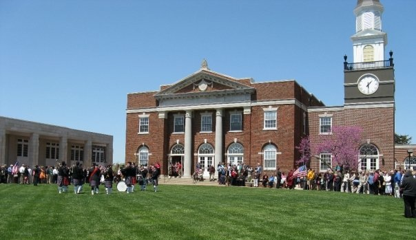 William Jewell College quad, facing Gano Chapel and Yates-Gill College Union